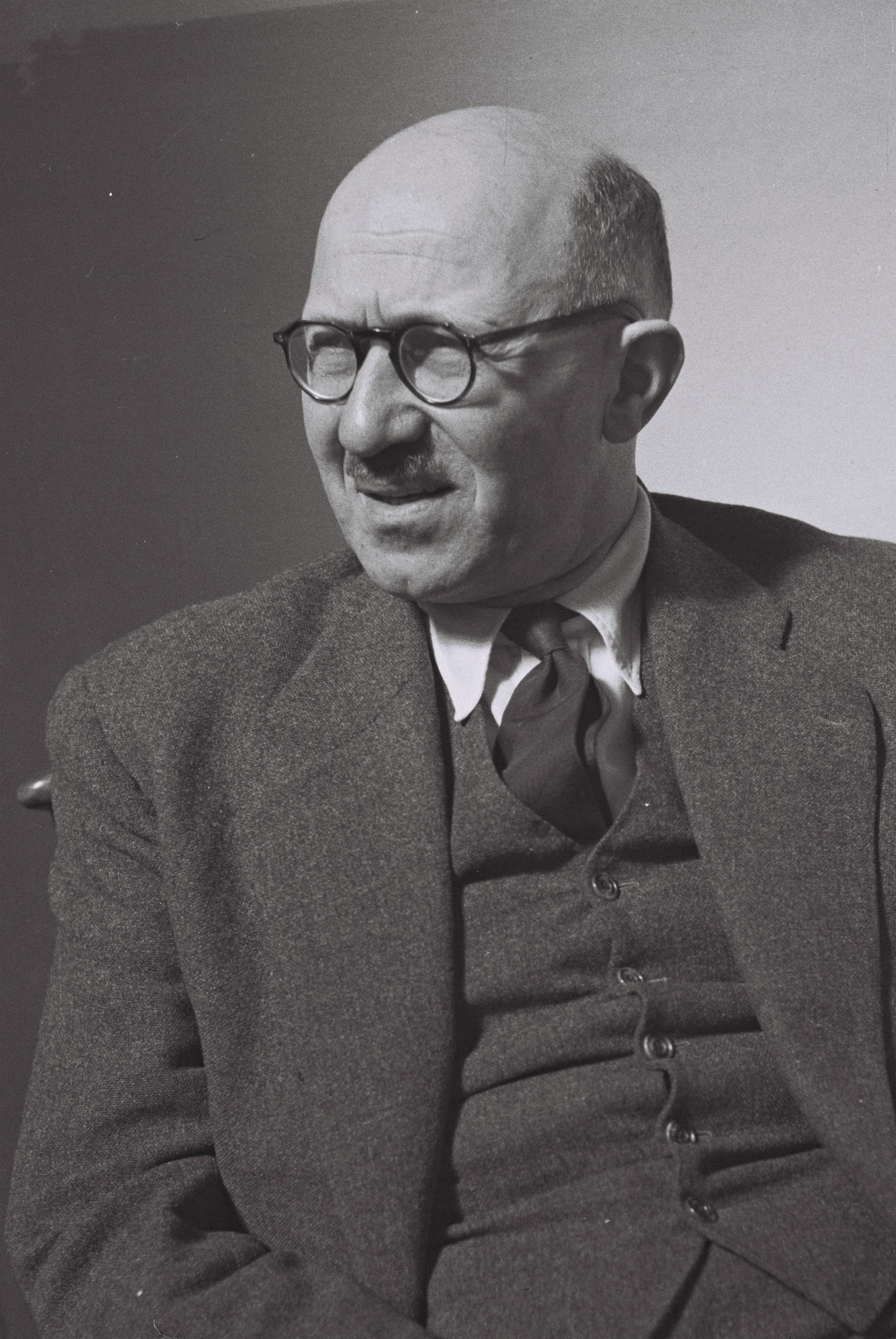 Portrait of Knesset member David AaCohen, acting mayor of Haifa, director general of Solel Boneh.